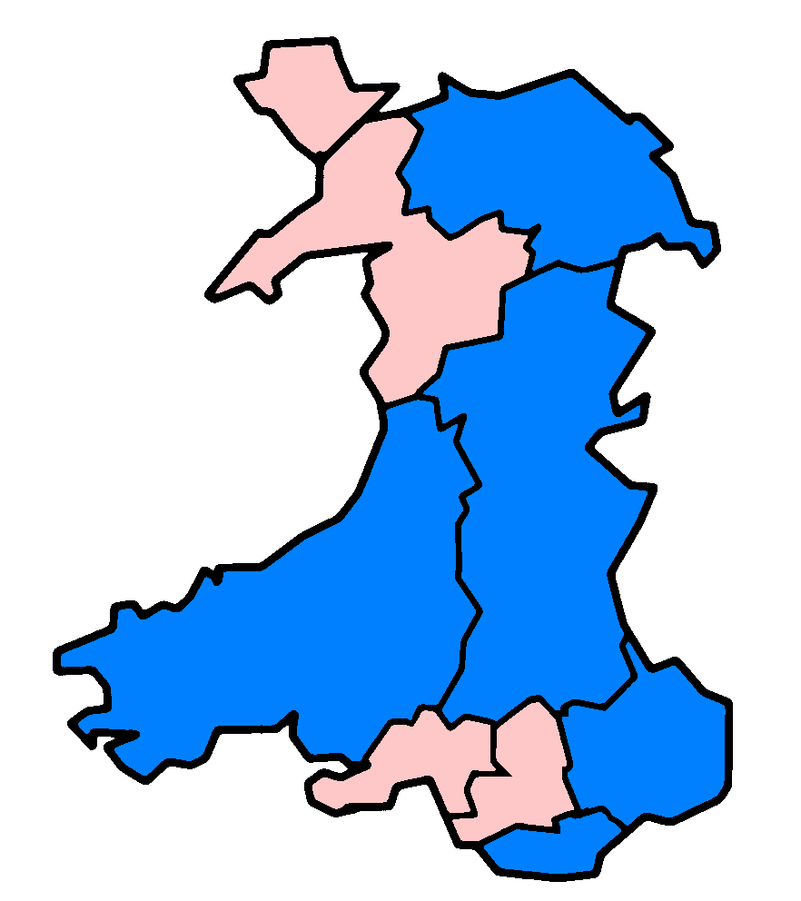 This image indicates in blue the preserved counties of Wales (as per Preserved Counties (Amendment to Boundaries) (Wales) Order 2003) affected by the 2007 floods as of July 24th 2007. That's Clwyd, Dyfed, Gwent, Powys, and South Glamorgan. Apologies if left any out. Some areas with only minor damage have been omitted. To forestall criticism, citations for each and every one of these areas can be found on under "Affected areas in Wales". The light blue colour was chosen because of its natural association with water, and pink as its opposite on the colour wheel. No other meaning is implied or should be inferred.